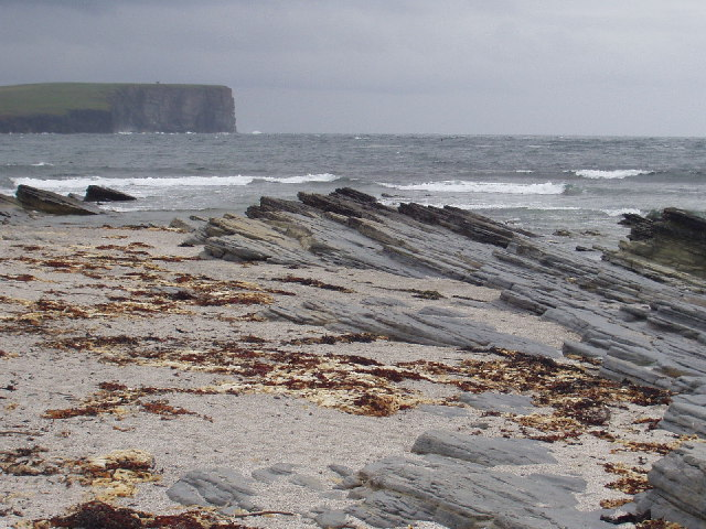 Point of Buckquoy. Looking towards Marwick Head on a damp day!